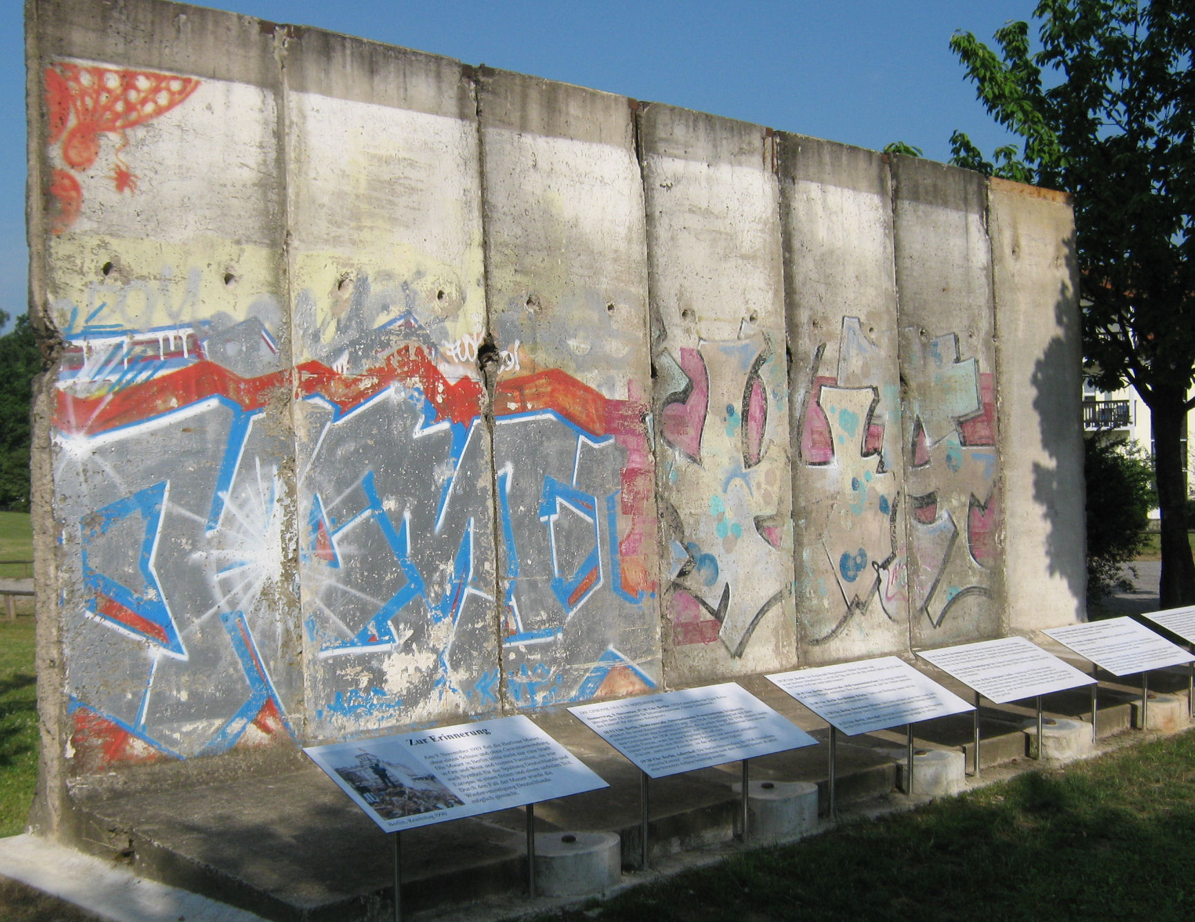 Part of the Berlin Wall in Diedorf.